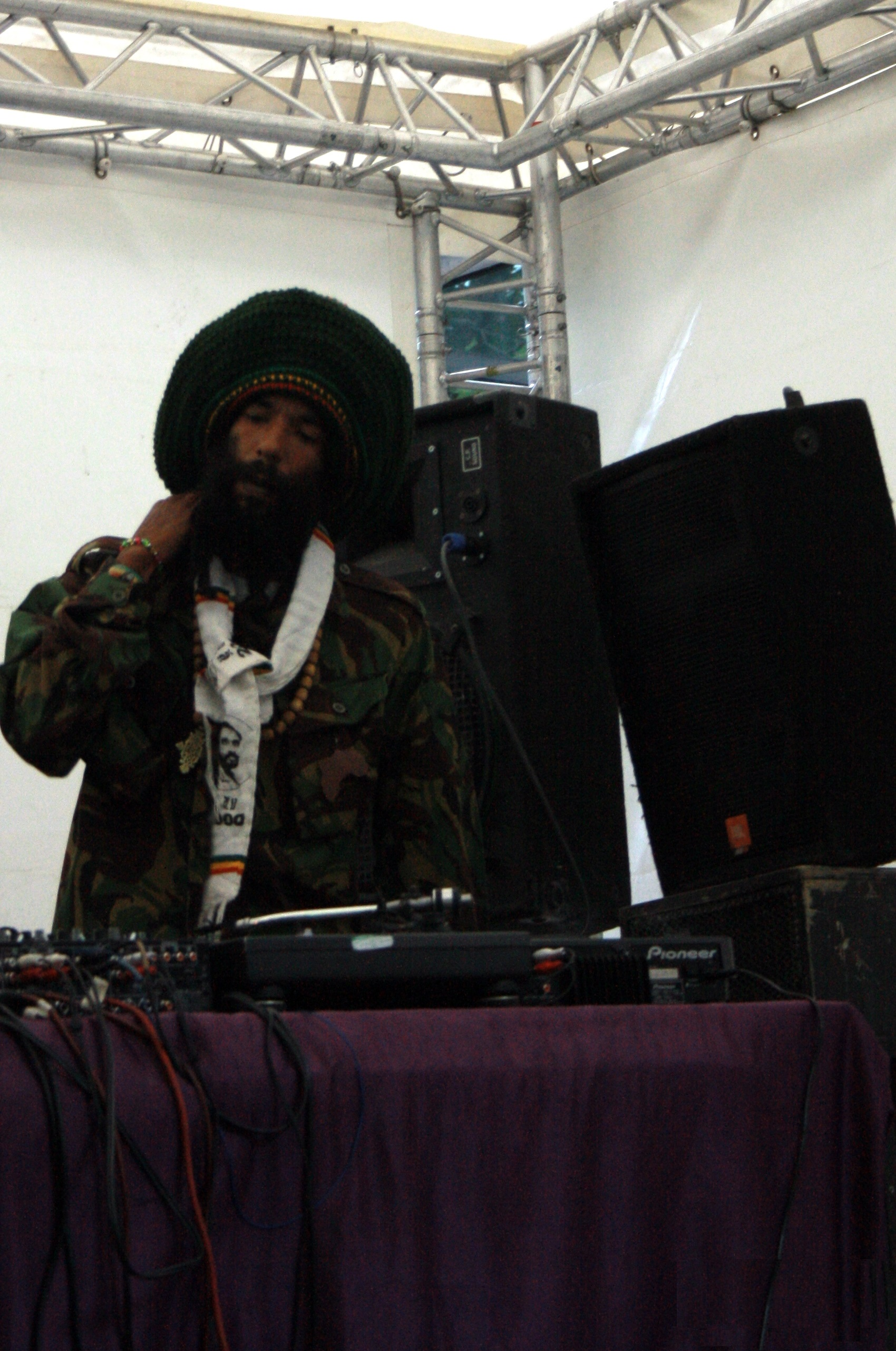 Congo Natty at Vibe bar